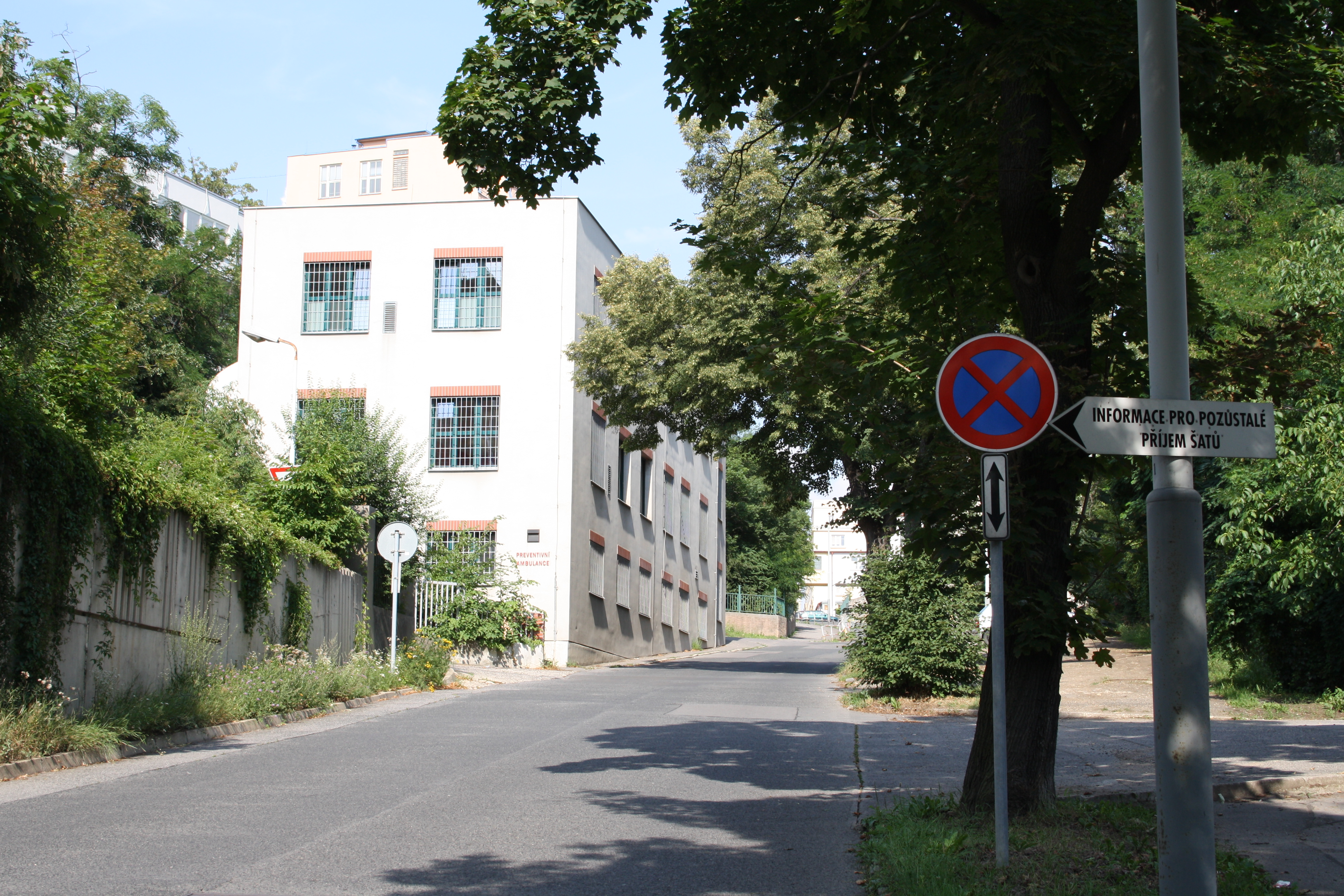 Prague Liben, Bulovka, sobering-up station